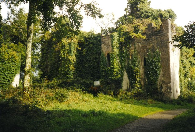 The Ruins of Castle Caldwell - and its history. The castle stands on an isthmus overlooking Lower Lough Erne. It was built in the first decade of the 17th century by Thomas Blemerhassett on the 1500 acre estate he acquired under the Plantation of Ulster . About fifty years later it was purchased by James Caldwell, an Enniskillen merchant whose family came from Prestwick in Ayrshire,Scotland. Unlike many of the old Plantation castles nearby (Tully, Archdale, Monea - see below), James Caldwell's castle survived and remained in his family until 1817 when it passed through marriage to the Bloomfields who retained it to the end of the century. Sadly, by 1900, this three hundred year old castle had become a ruin and is now almost completely overtaken by woodland.